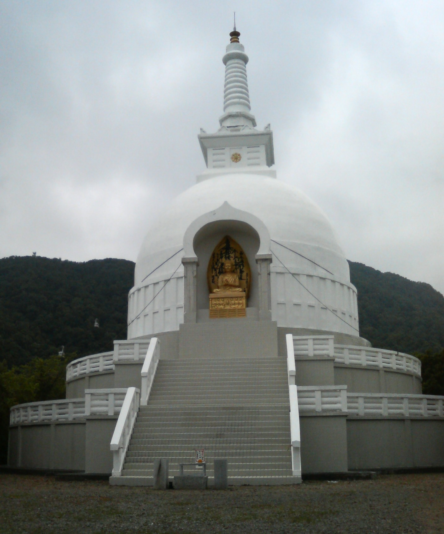 Moiwa Peace Tower. Sapporo-city, Hokkaido JAPAN.